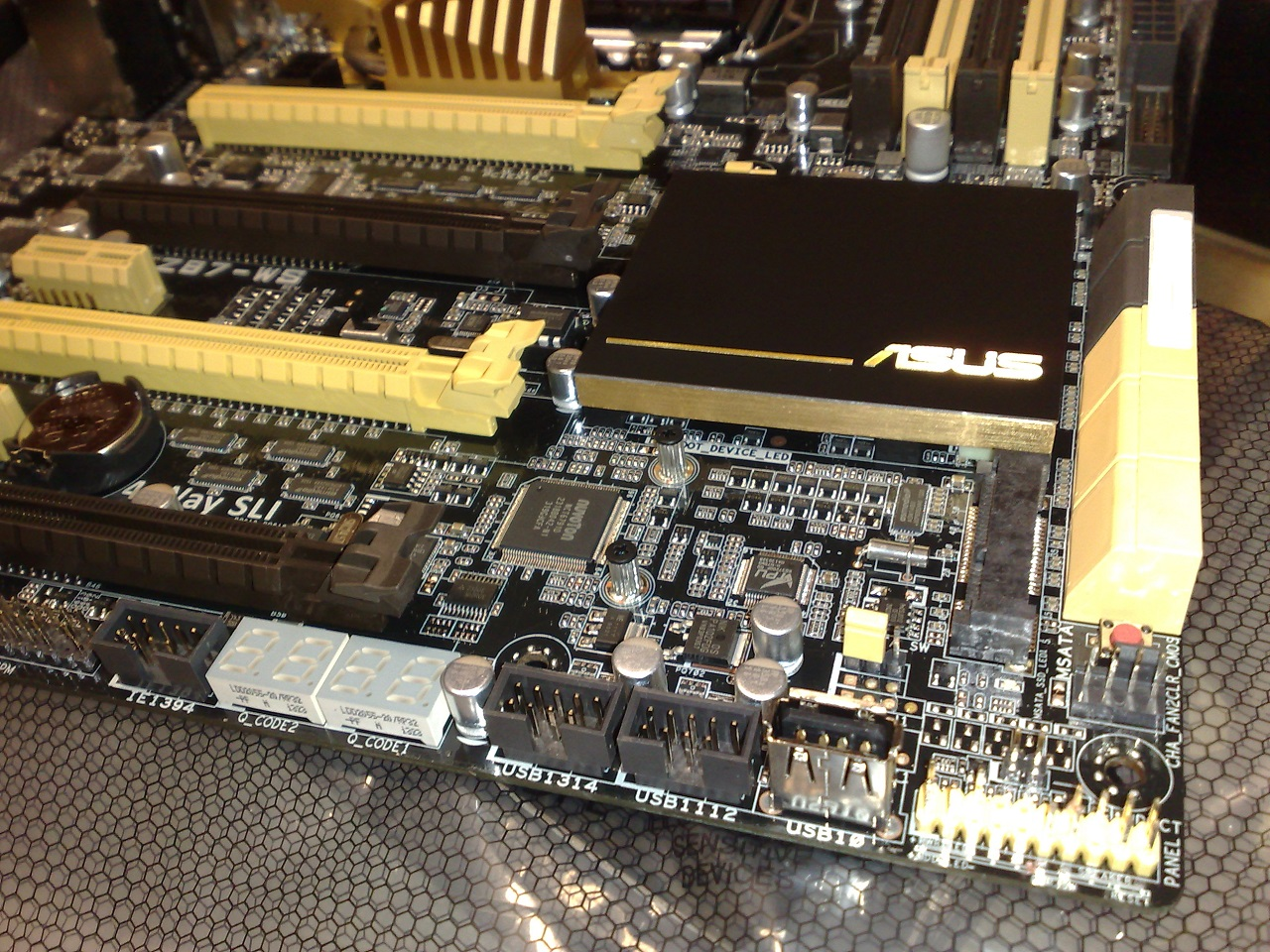 Two POST ("port 80") seven-segment displays integrated on a computer motherboard (labeled "Q_CODE1" and "Q_CODE2"), as found on an ASUS Z87-WS computer motherboard